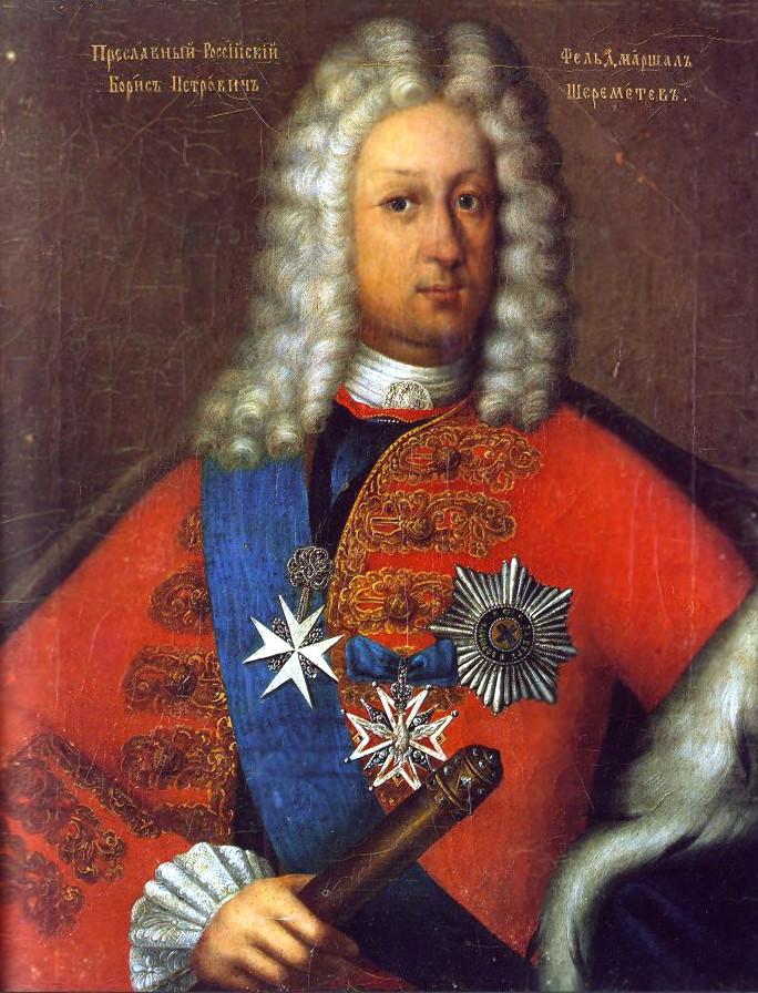 Portrait of Boris Sheremetev (1652-1719)